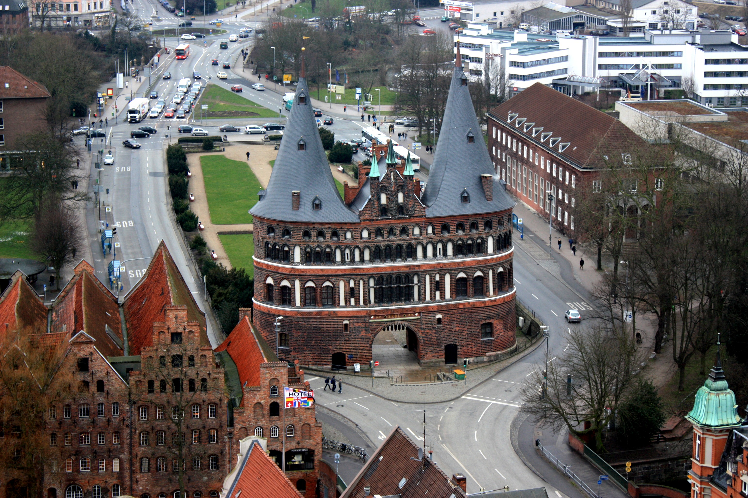 Holstentor in Lübeck, Germany